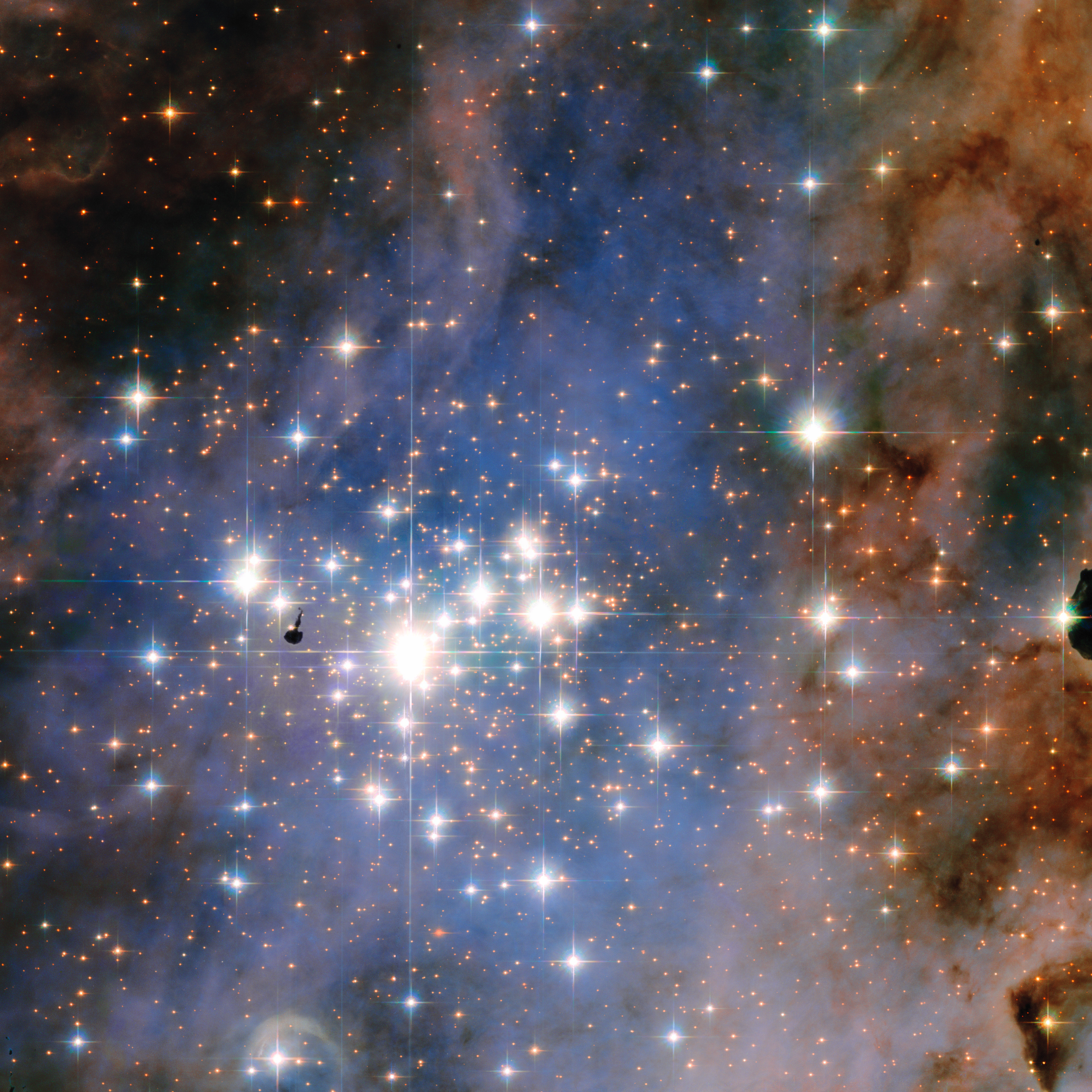 This NASA/ESA Hubble Space Telescope image features the star cluster Trumpler 14. One of the largest gatherings of hot, massive and bright stars in the Milky Way, this cluster houses some of the most luminous stars in our entire galaxy. The prominent dark patch, close to the centre of the cluster is a so called Bok globule: this is an isolated and relatively small dark nebula, containing dense dust and gas. These objects are still subjects of intense research as their structure and density remains somewhat a mystery.